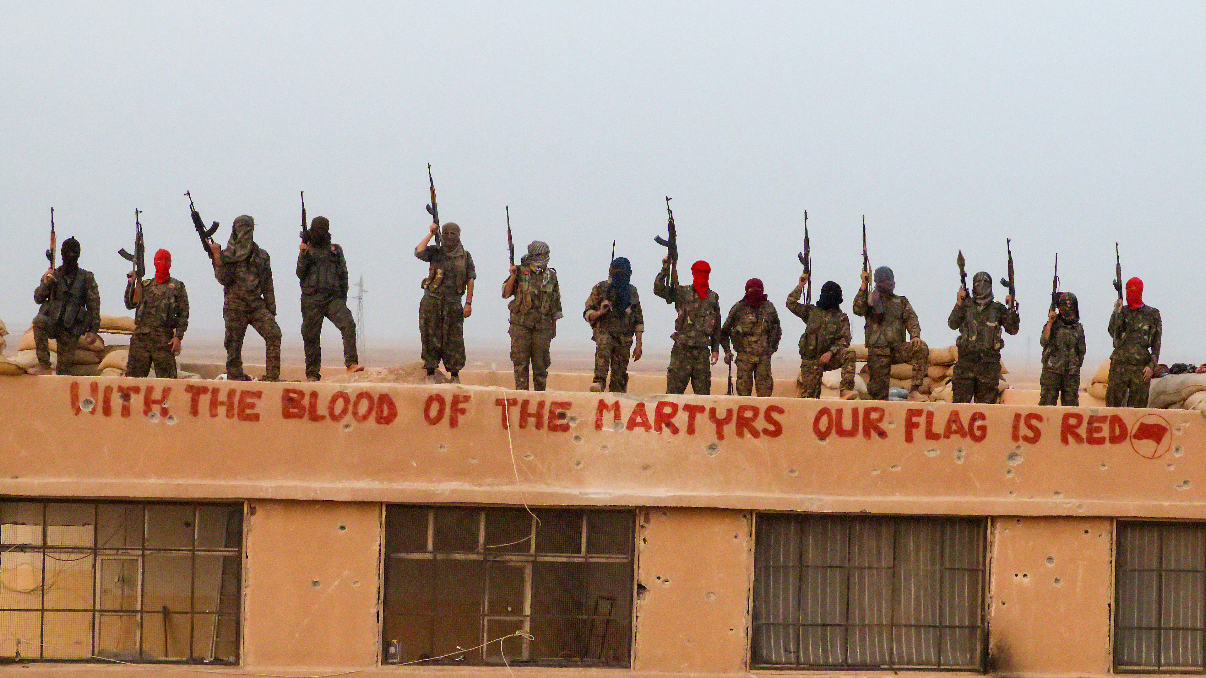 Blood of the Martyrs photo taken by members of the International Freedom Battalion